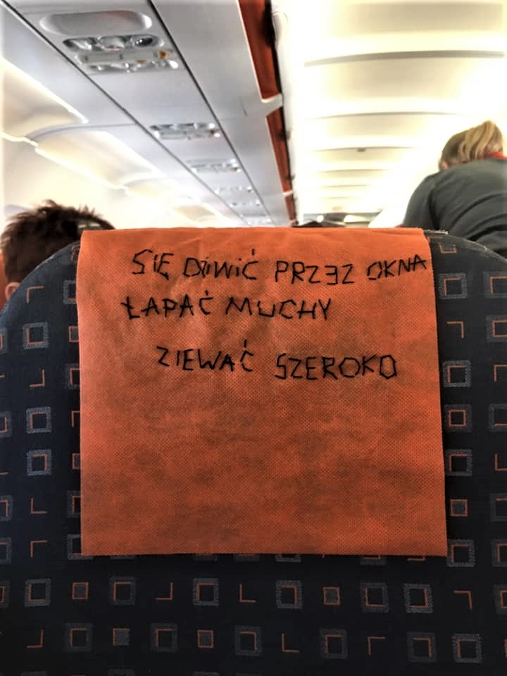 Monika Drożyńska, 2019.